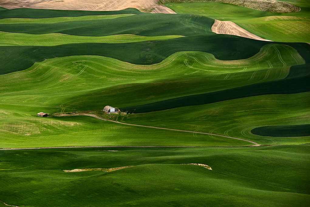 Palouse fields, Eastern Washington, USA